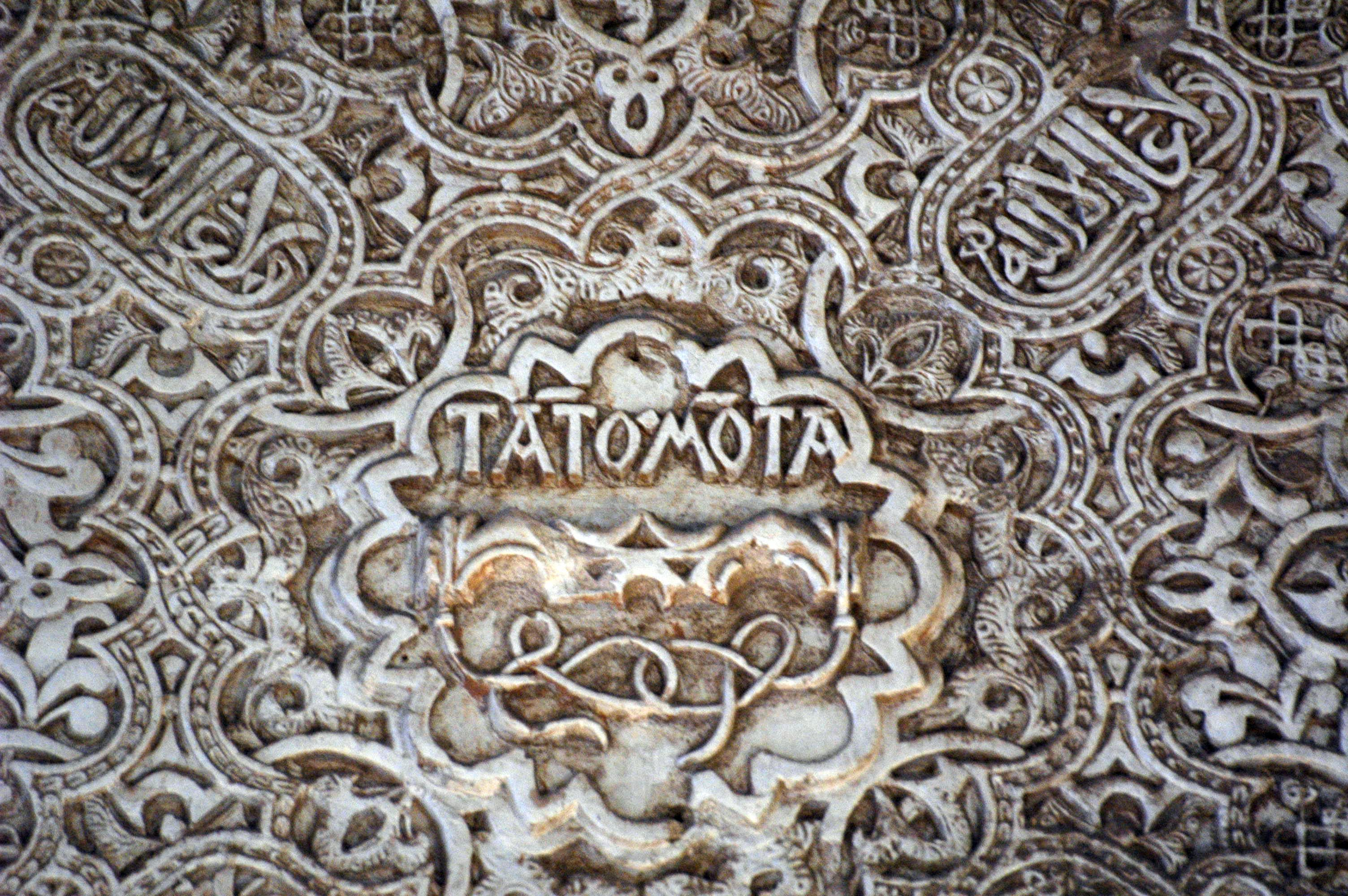 "Tãto mõta" ("tanto monta", "it amounts as much") was the motto of the monarchs of Castile (Spain); here it is inscribed on the Moorish Alhambra Palace in Granada.TATOMOTA